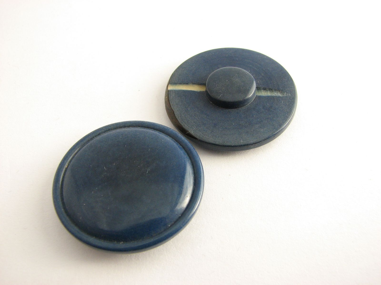 Tagua nut buttons on both sides